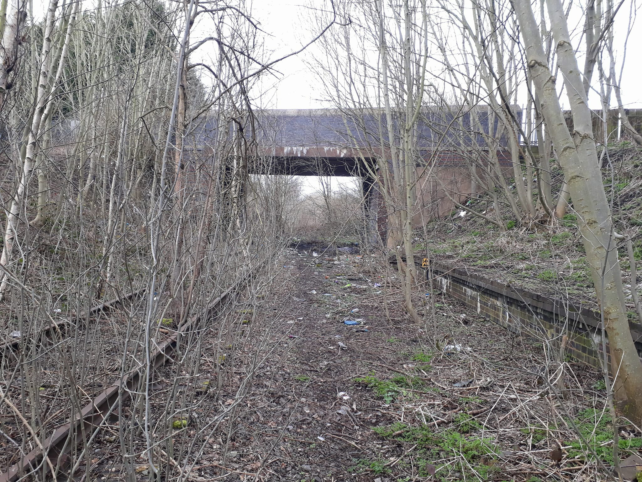 My own photo.